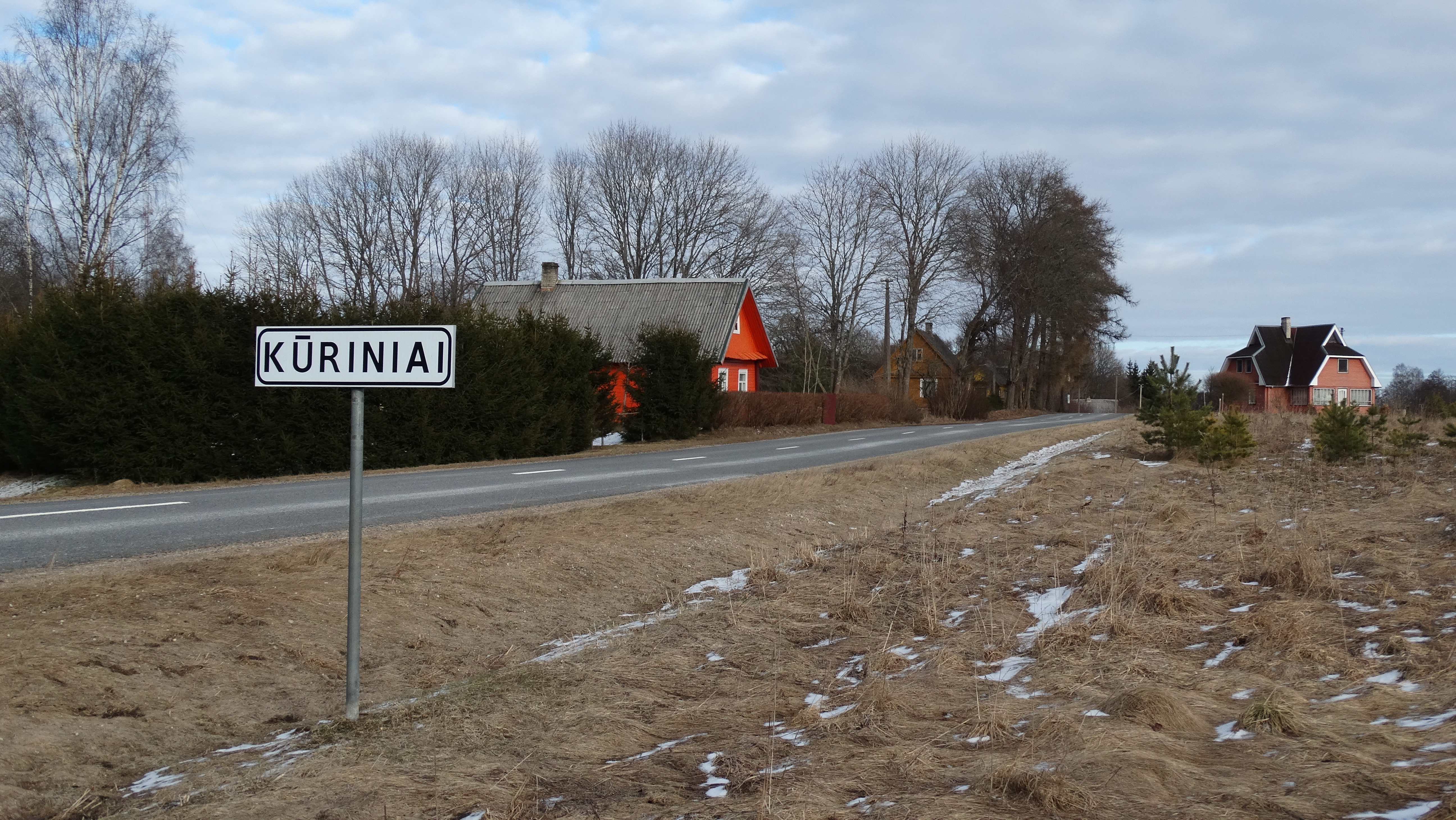 Kūriniai, Švenčionys district, Lithuania